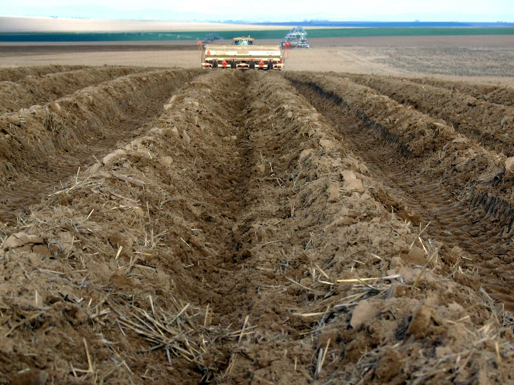 Potato planting machine